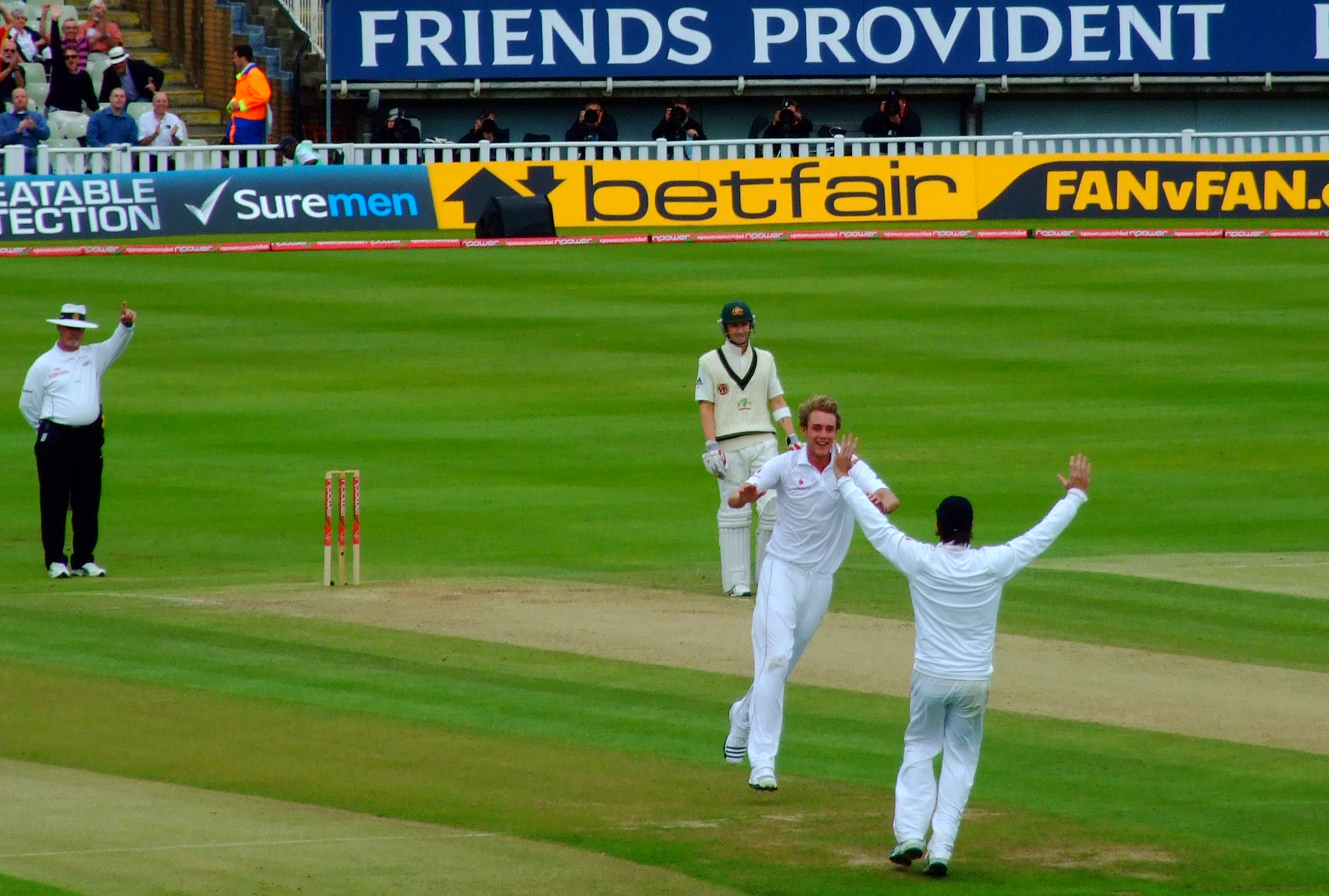 5th Day, 3rd Test: England v Australia, Edgbaston, 3rd August 2009 Stuart Broad celebrates the wicket of Michael Hussey with Graeme Swann.